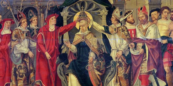 investiture of Pope Celestine V titled "Allegory of the Coronation of Celestine V”.